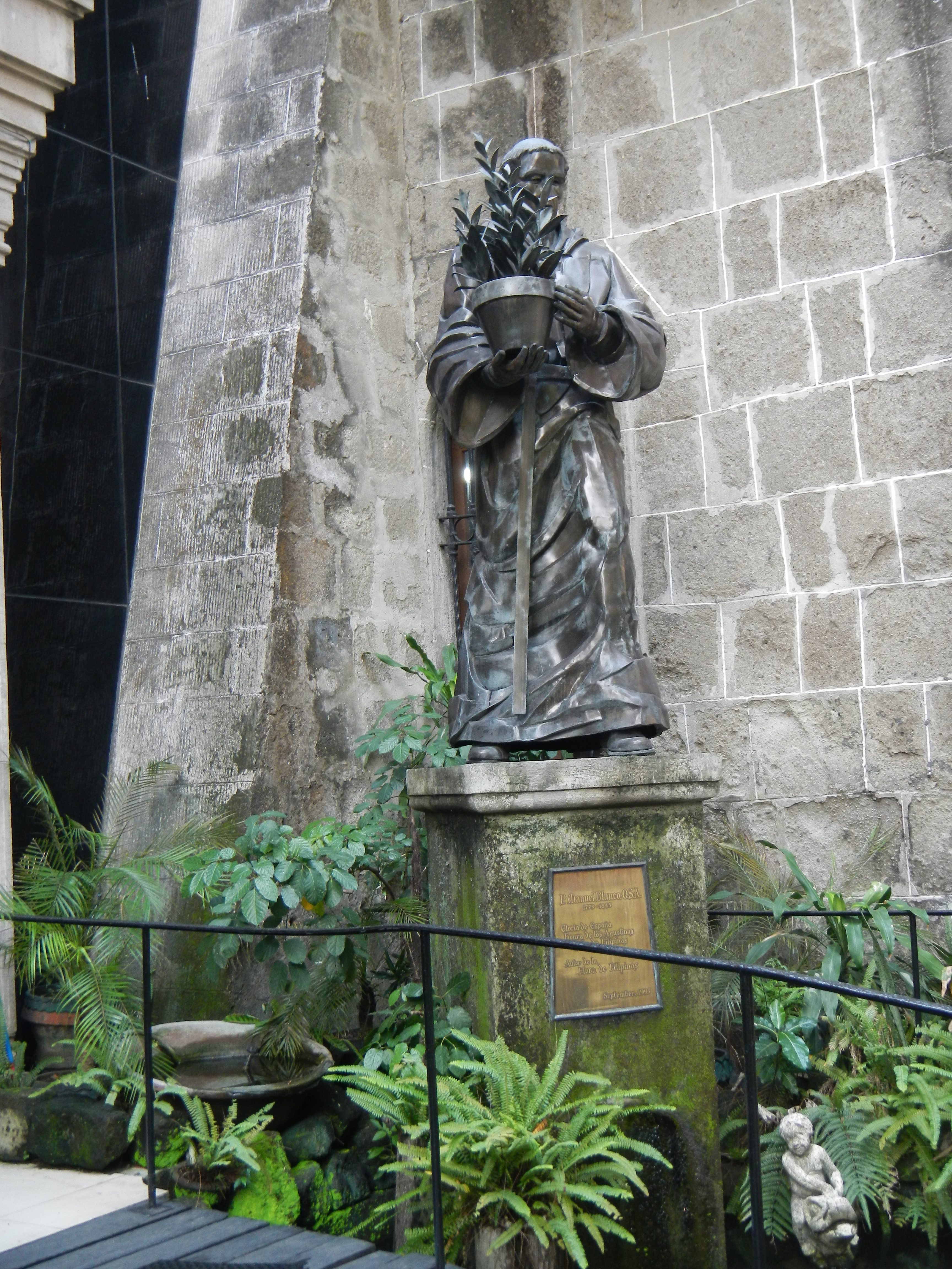 Monument of Francisco Manuel Blanco[1] (1778 – 1845) was a Spanish friar and botanist. author of the first comprehensive flora of the Philippines, Flora de Filipinas. Según el sistema de Linneo (Flora of the Philippines according to the system of Linnaeus). The first two editions (Manila, 1837 and 1845) were unillustrated. - beside the - Seminario San Agustin - Order of Saint Augustine, Province of the Most Holy Name of Jesus in the Philippine -Vacariate of the Orient (E-1565) - Professorium [2] [3] (Augustinians, E-1244) Convento de San Agustin - 181 Gen. Luna Street, P.O. Box 3366, Intramuros, Manila - (Postulancy and Pre-Novitiate) beside/adjoining --- The San Agustin Church Museum is part of the - San Agustin Church, Manila - (Shrine of Nuestra Señora de Consolacion y Correa - Nuestra Señora, Madre de la Consolación) [4] - [5] (General Luna Street, Intramuros, Manila) a Roman Catholic church under Roman Catholic Archdiocese of Manila,[6] and the auspices of The Order of St. Augustine[7], located inside the historic walled city of Intramuros[8] in Manila. Originally known as "inglesia de San Pablo", founded in 1571, it is the oldest stone church (built in 1589) in the Philippines. In 1993, San Agustin Church was one of 4 Philippine churches constructed during the Spanish colonial period designated as a World Heritage Site by UNESCO, under the collective title Baroque Churches of the Philippine.[9][10] It was named a National Historical Landmark by the Philippine government in 1976.[11] Website [12] San Agustin Museum: Repository of enduring friendship July 25, 2004 [13] San Agustin International Music Festival [14] r. Pedro G. Galende was the director of San Agustin Museum in Intramuros, Manila, suceeded by incumbent Director and Curator, Fr. Asis Bajao, OSA.[15]